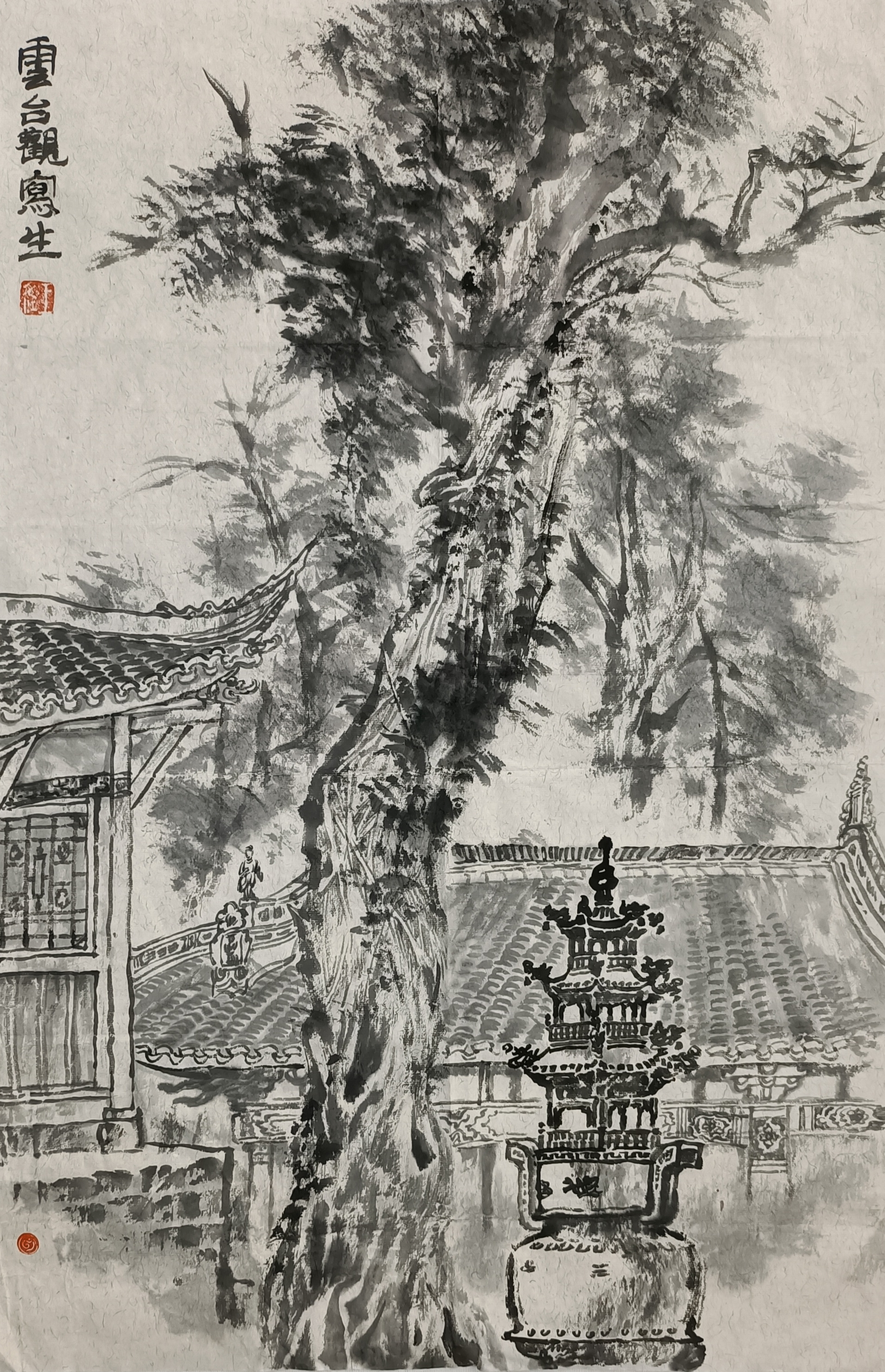 Courtyard of the Taoist Temple of Cloud Terrace (aka Yün-tai Temple), which located in the An-chü Town, San-tai County, Mien-yang. An ink and wash painting created by Wang Chiu-chiang.